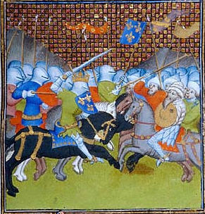 Chlothar II.